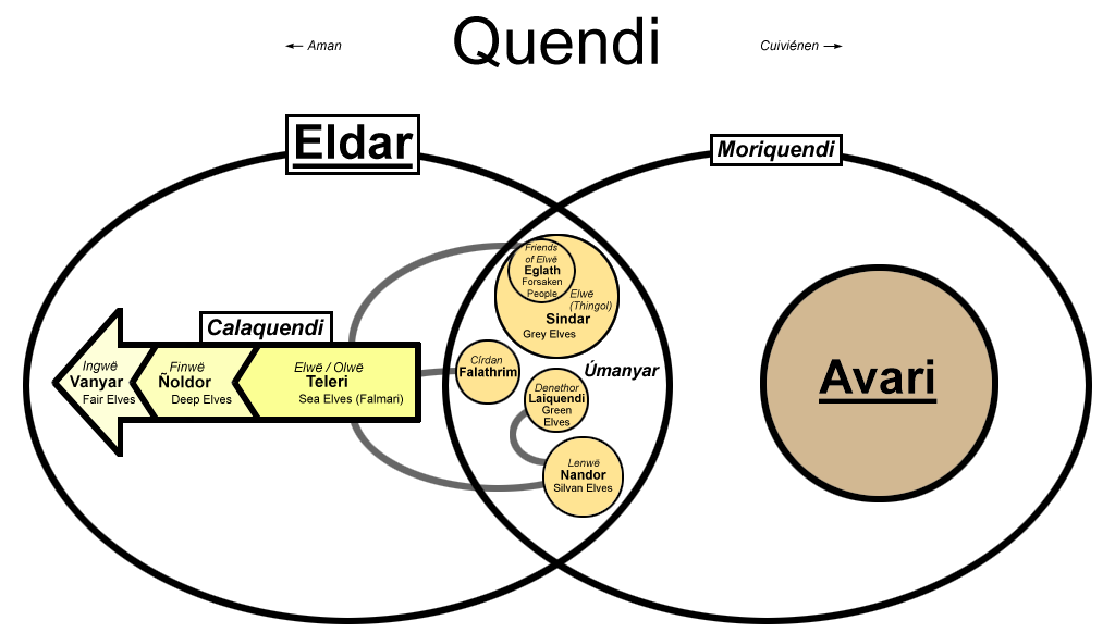 I created this image to give myself a better understanding of the various classifications of Tolkien's Elves after the Great Journey, hopefully it will help others as well. It can also serve as an abstract representation of the journey itself - the further to the left the further along the road to Aman.